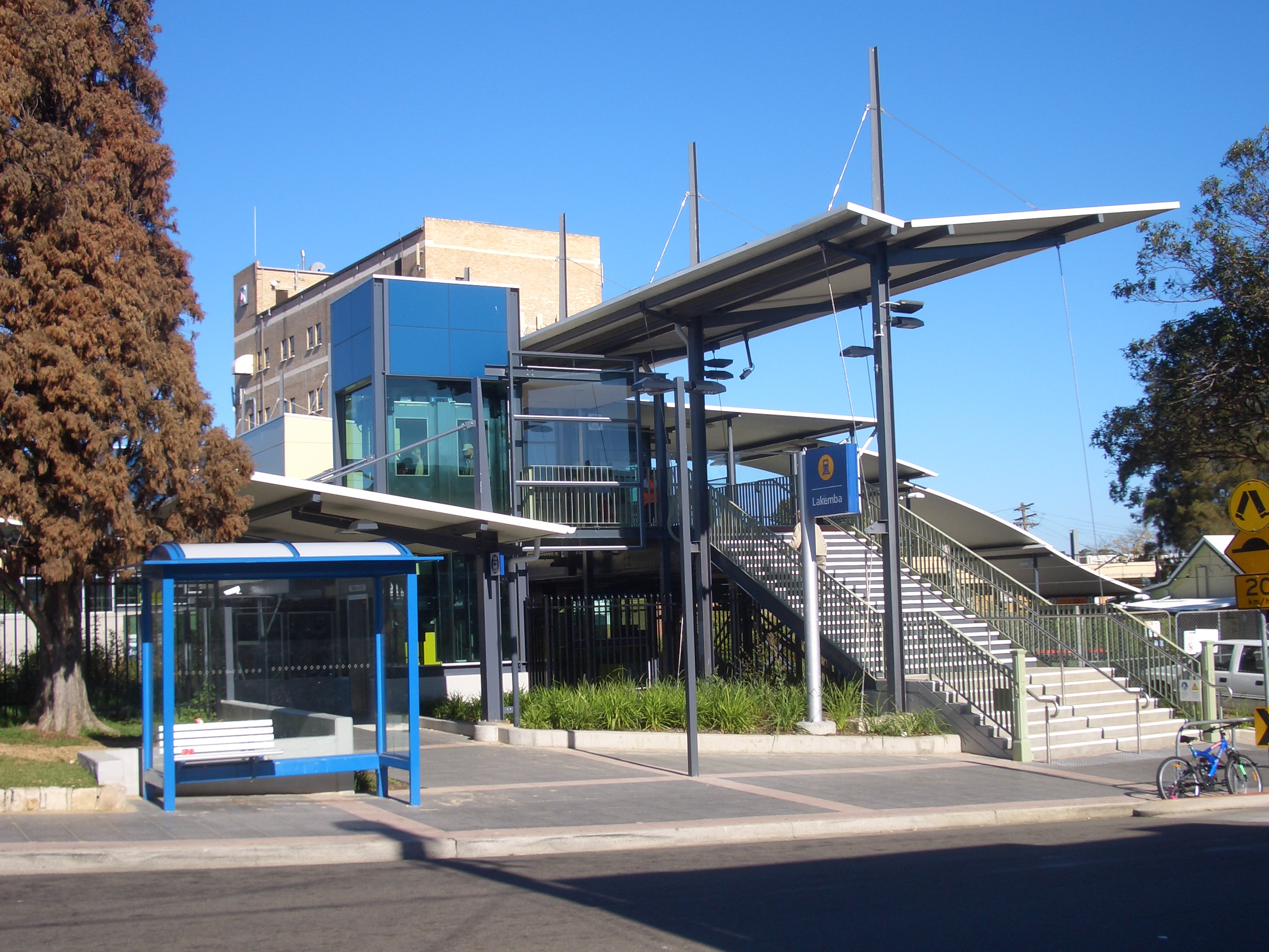 Lakemba_Railway_Station_1.JPG